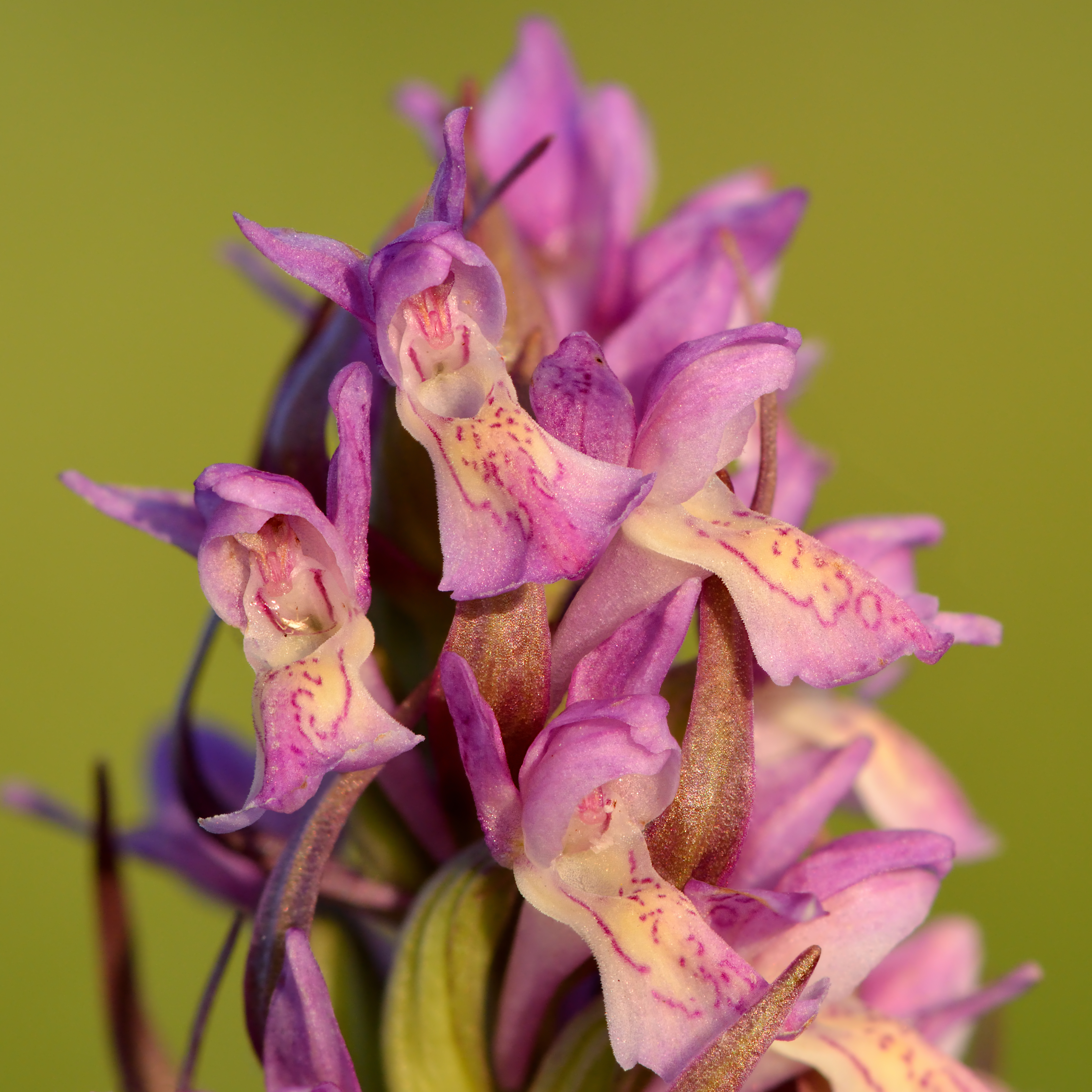 Hybrid between type subspecies (D. incarnata subsp. incarnata) and cream-flowered early marsh orchid (D. incarnata subsp. ochroleuca). Flower size (width × height) ca 8×12 mm